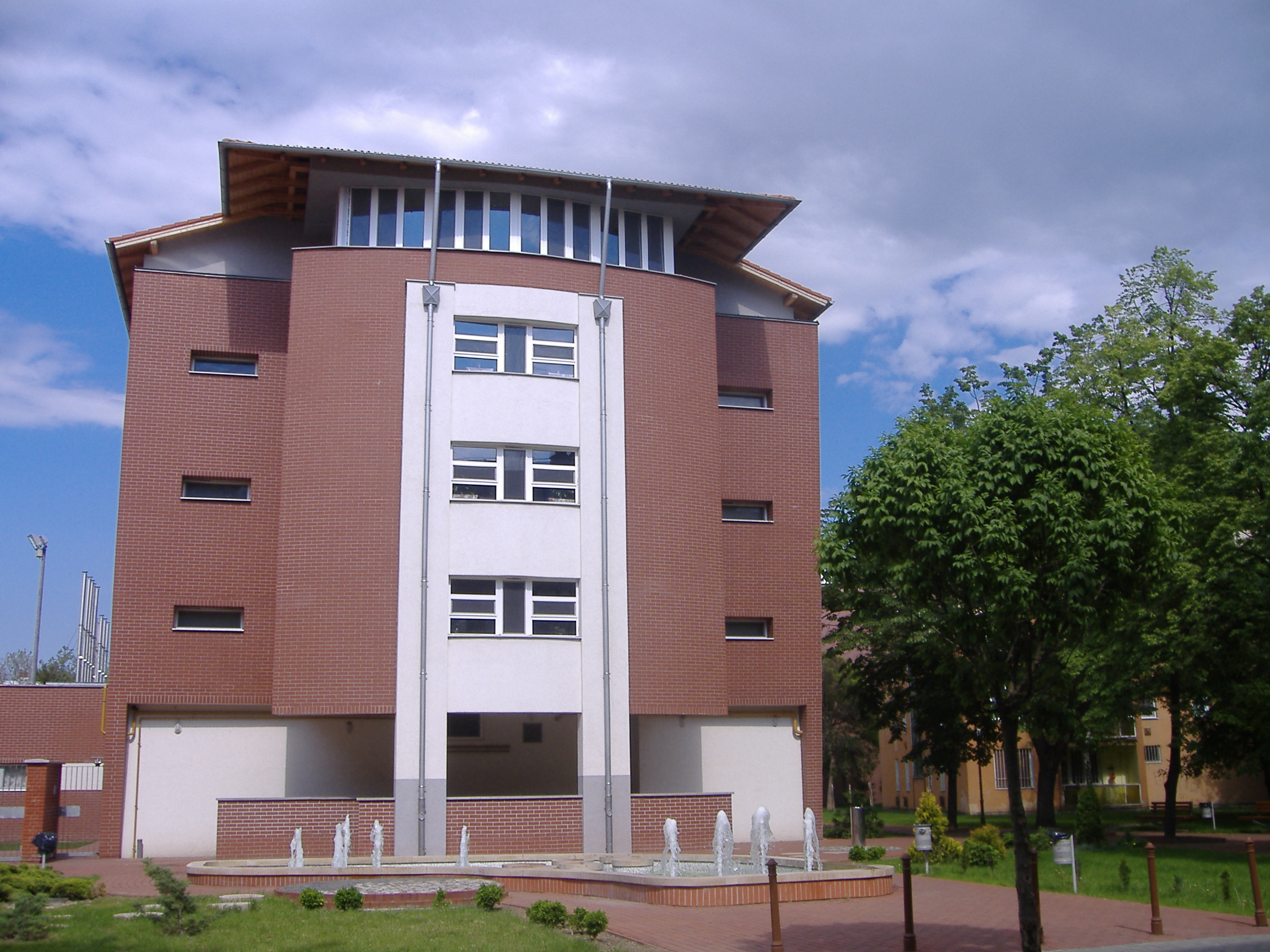 The building of the hostel named after Joseph Pulitzer in Makó, Hungary